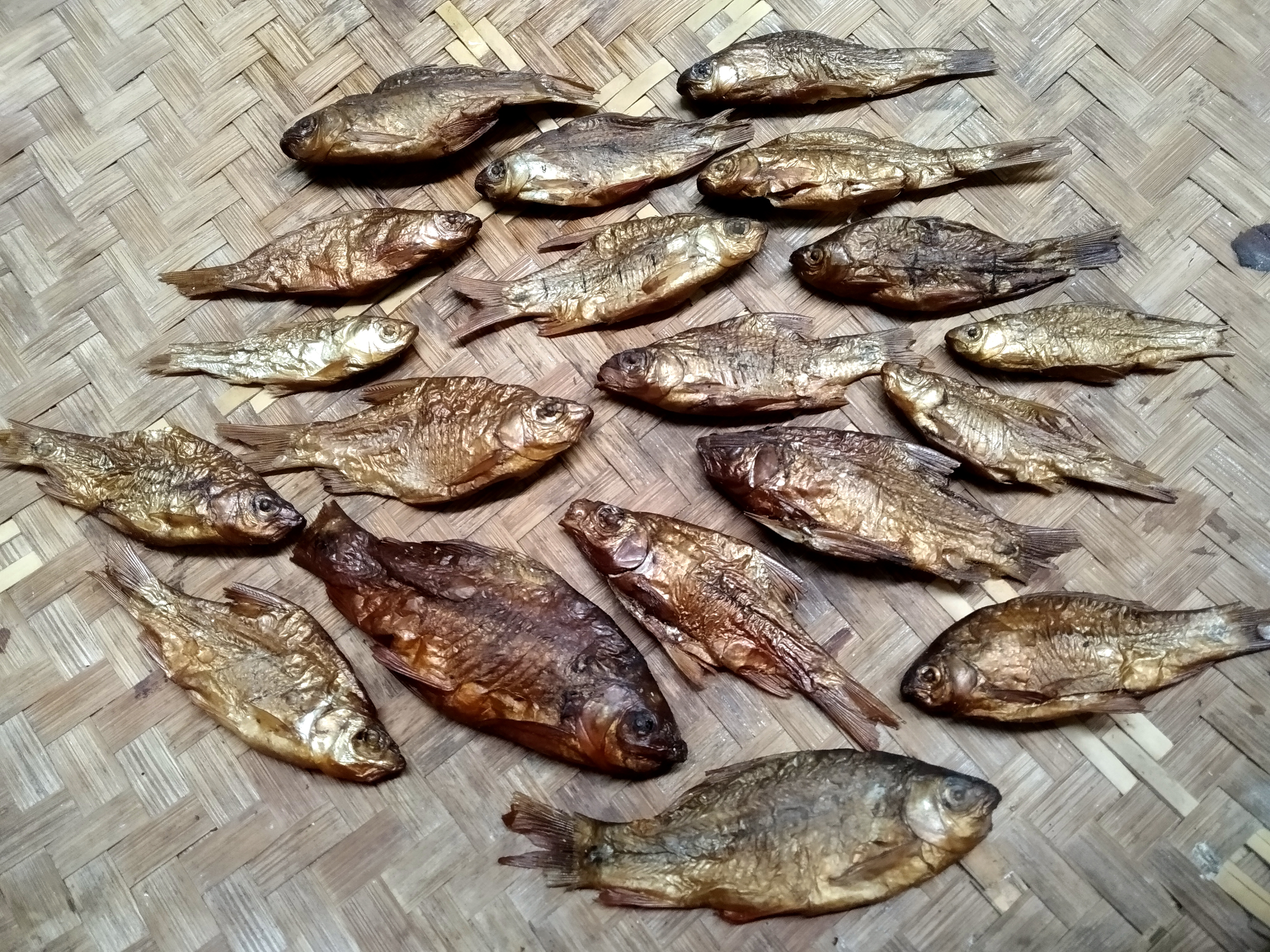 Ikan salai (smoked fish) consist of small Cyprinidae species (genera Cyclocheilichthys, Osteochilus, among others), buy from Singkut market of Jambi, Sumatra, Indonesia.